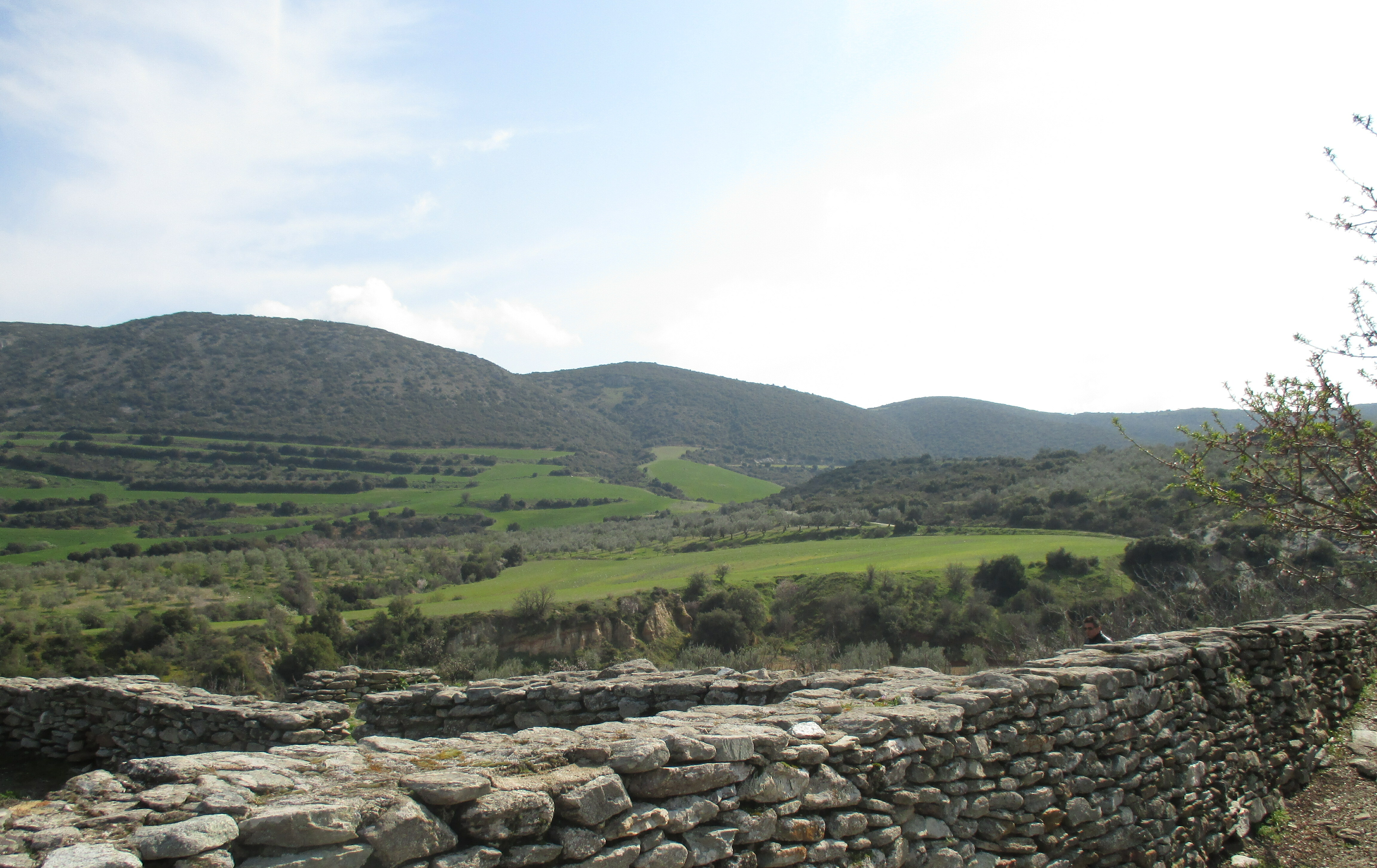 Sesklo area near Volos, Greece